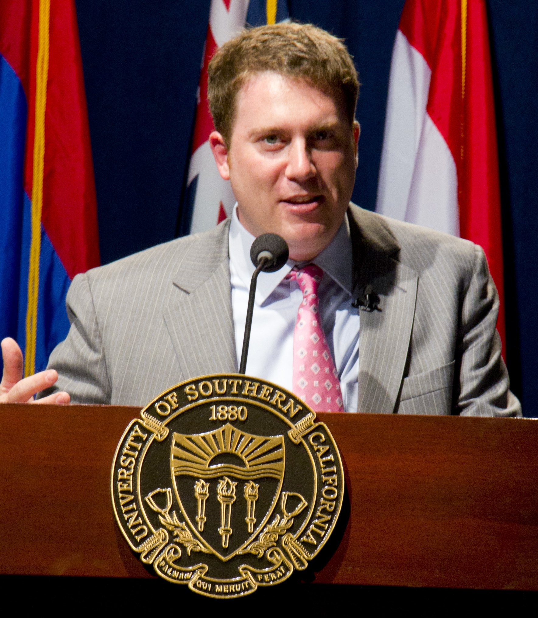 Smith in 2012